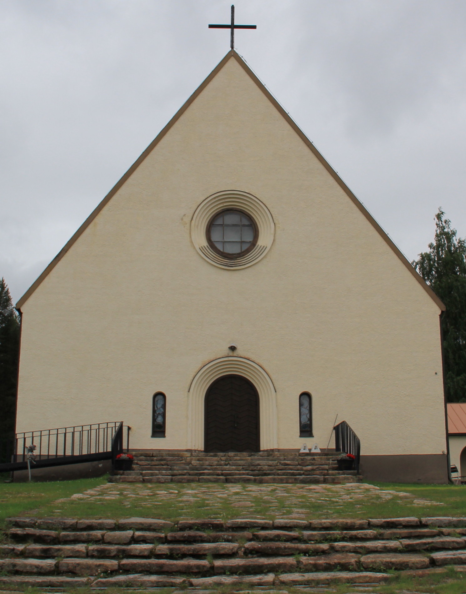 Ylitornio church, Ylitornio, Finland. - Main entrance, seen from west.